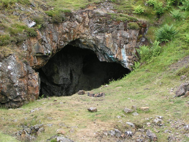 Tomnadashan Copper Mine. Mined in the last century by the Marquis of Breadalbane for gold and copper. The cave pictured was also used as the location of the Cave of Caerbannog - the home of the killer rabbit in Monty Python and the Holy Grail